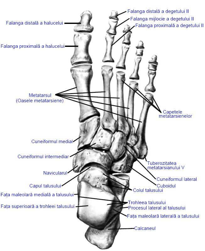 Tars, dorsal surface